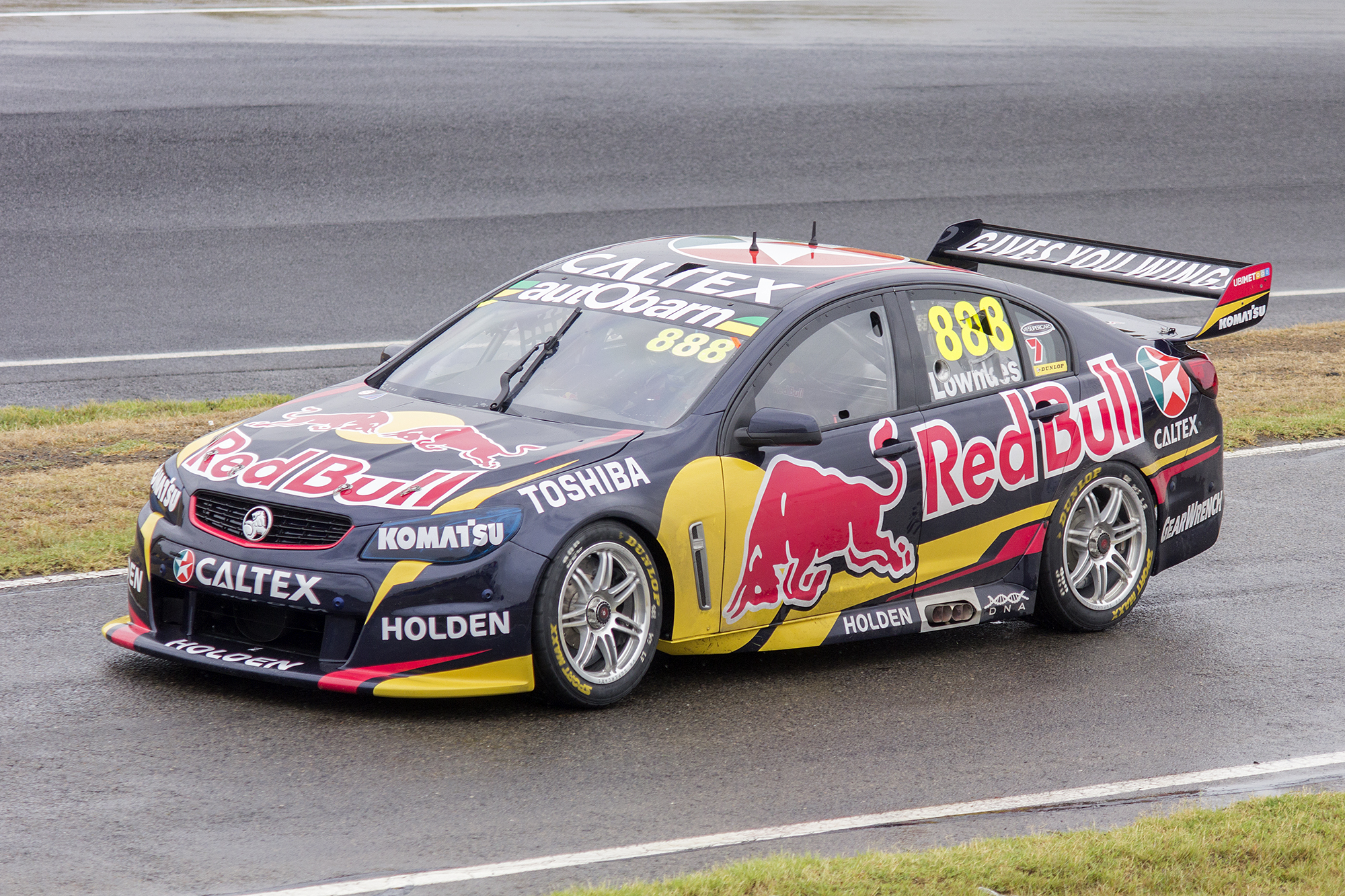 Craig Lowndes in Red Bull Racing Australia car 888, departing pitlane during the V8 Supercars Test Day at Sydney Motorsport Park.